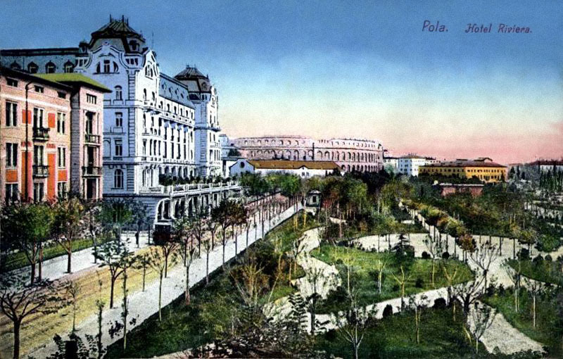 Postcard of Pula, 1904